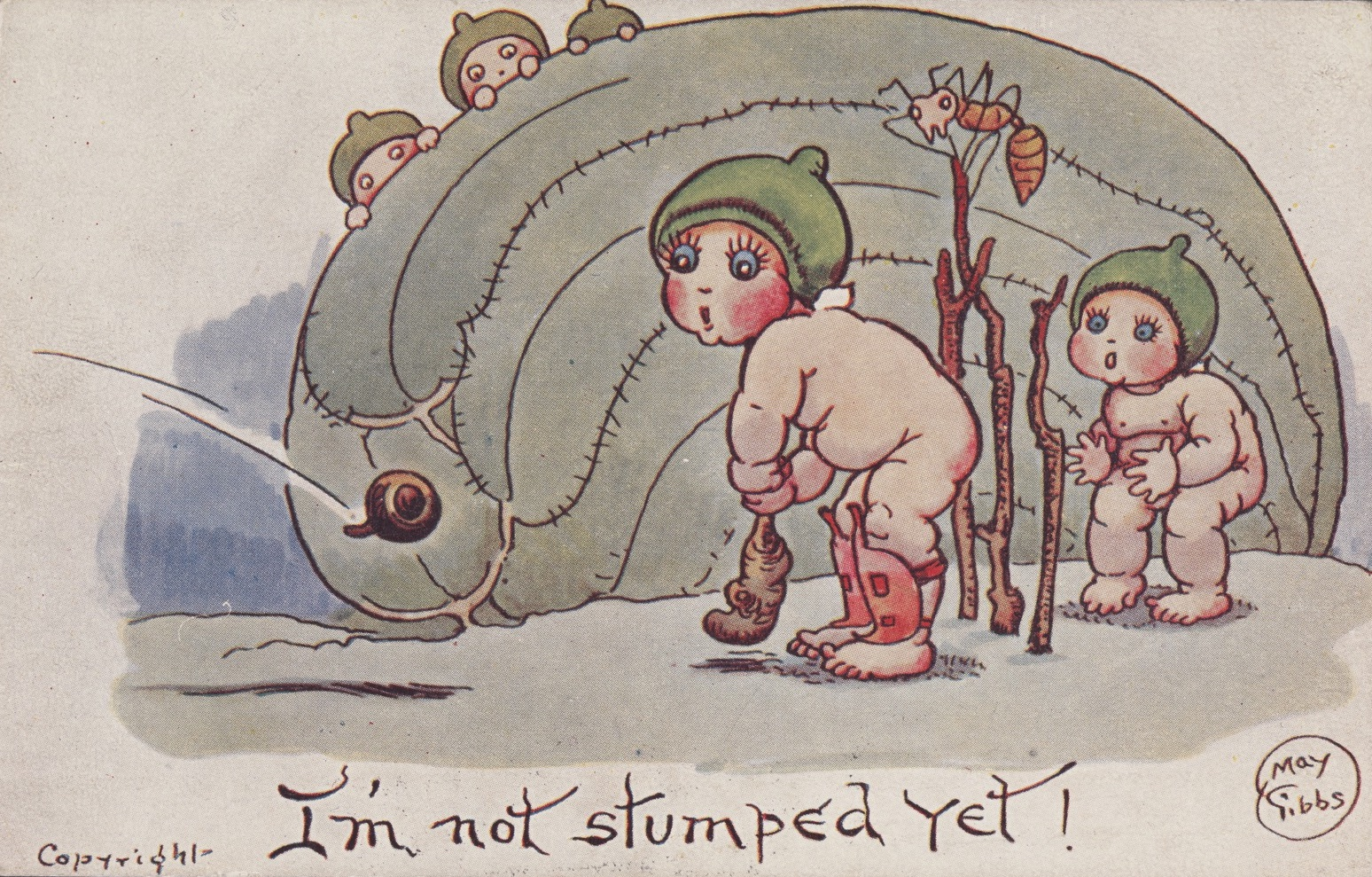 Postcard of May Gibbs' gumnut babies playing cricket; colour print, 8.8 x 13.8cm